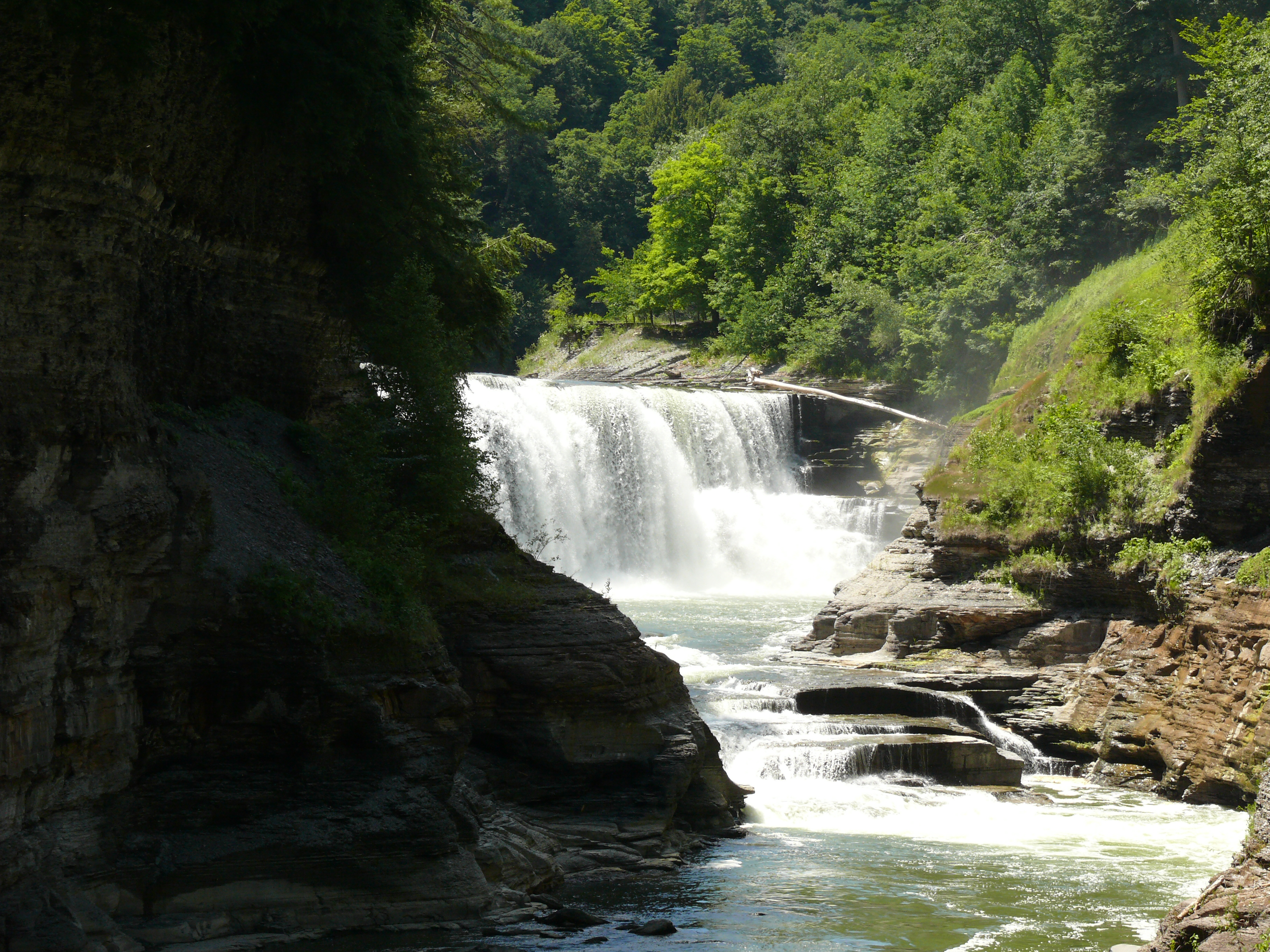 Lower Falls in Letchworth State Park